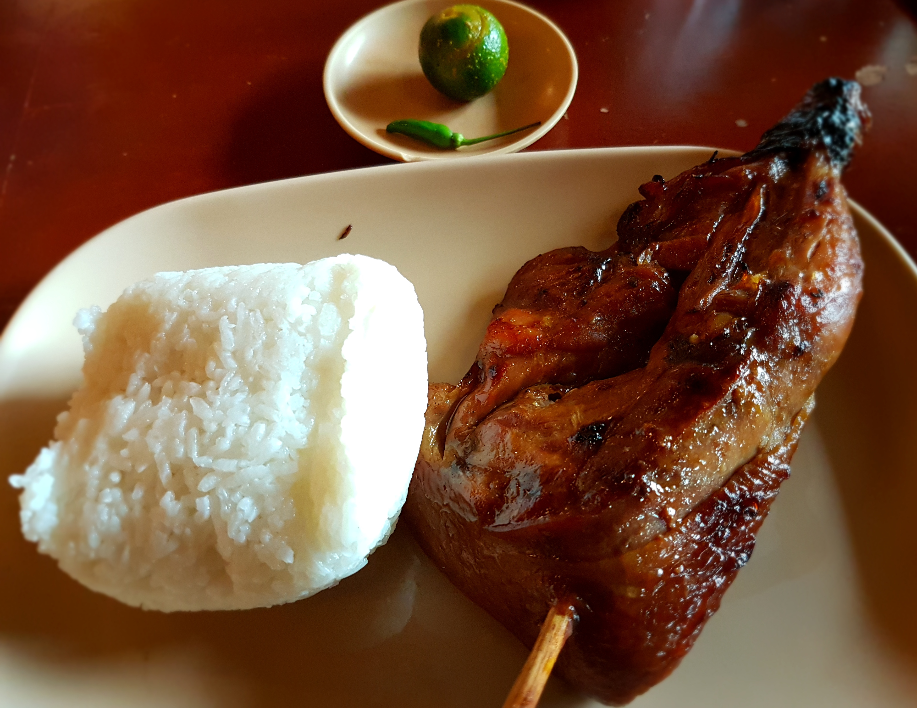 Chicken inasal (Philippines)